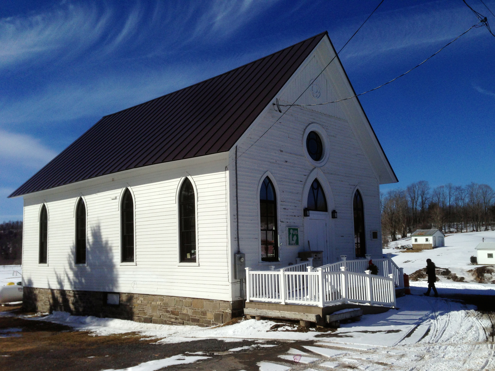 Osceola NY, historic town hall, originally Osceola Methodist Church.